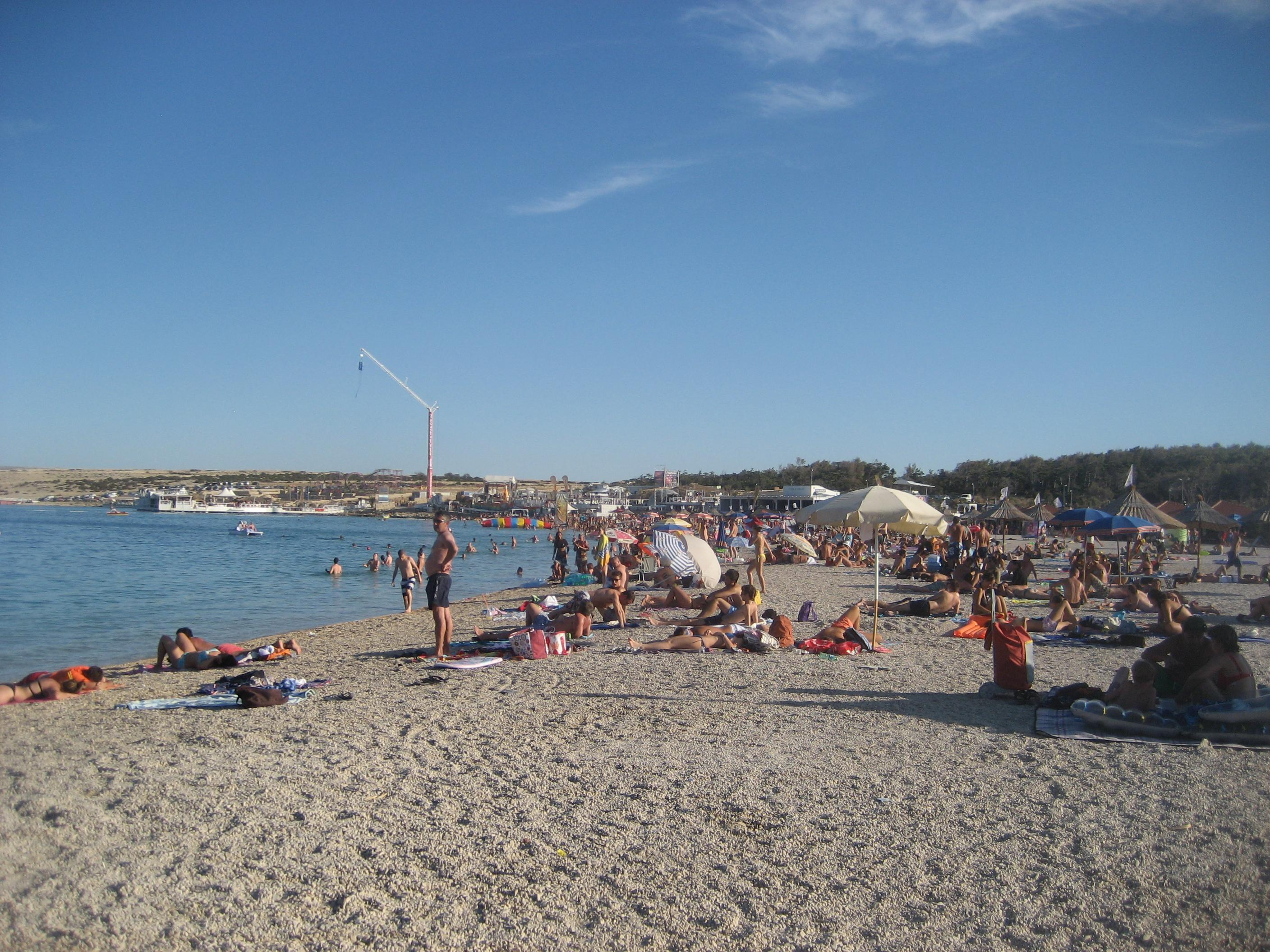 Zrce, Pag